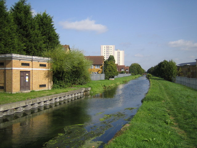 The New River, Enfield. The New River is something of a misnomer since it is neither a river nor new. It is an aqueduct built under the direction of Sir Hugh Myddleton between 1607 and 1612 to bring fresh drinking water from Chadwell and Amwell Springs near Ware about 40 miles down the Lee Valley to London. for further information. This view was taken from near the Carterhatch Lane bridge.